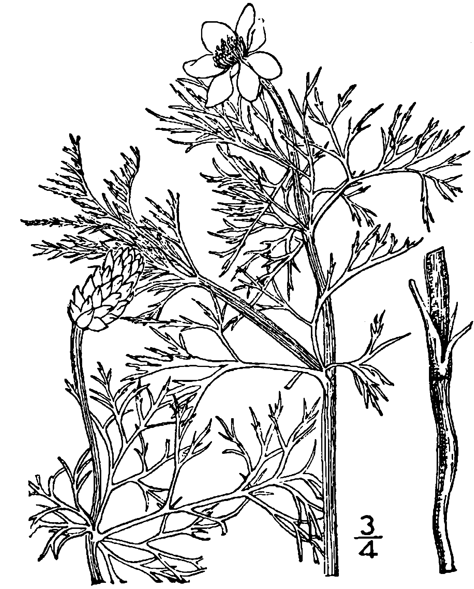 Blooddrops. Drawing.